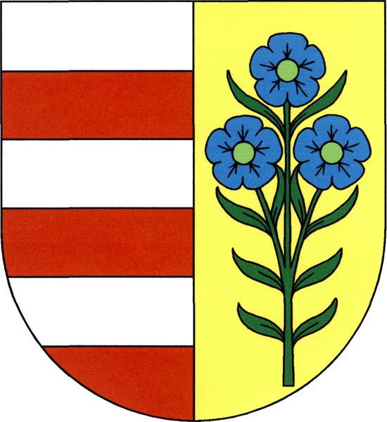 Coat of amrs of Drhovy , District Příbram, Czech Republic